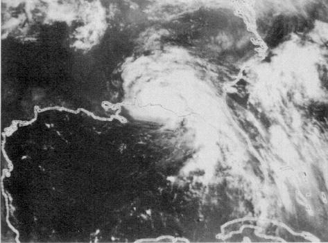 this satellite image shows Tropical Storm Alberto near its landfall in June of 1994.